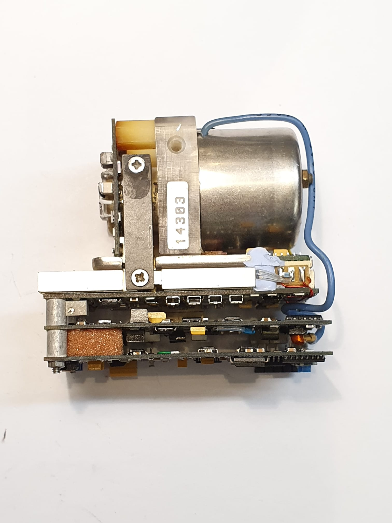 Frequency Electronics FE5650A rubidium oscillator, without casing and powersupply.